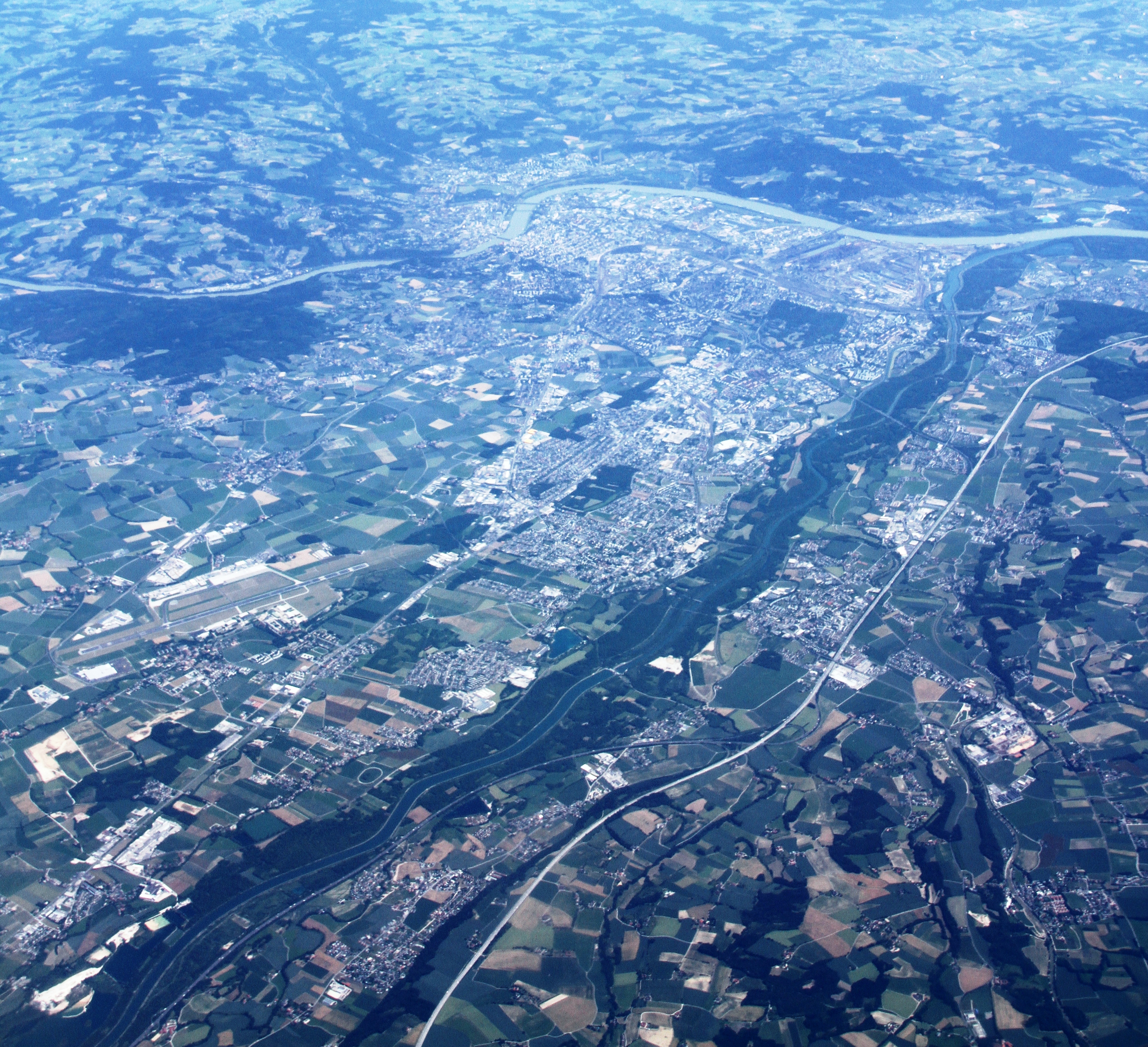 The city of Linz in Austria, with river Traunbach flowing into the Donau.